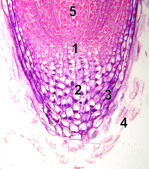 Root tip magnified 100× under an optical microscope. Legend: Meristem Columelle (statocytes with statolithes) Lateral part of the tip Dead cells Elongation zone